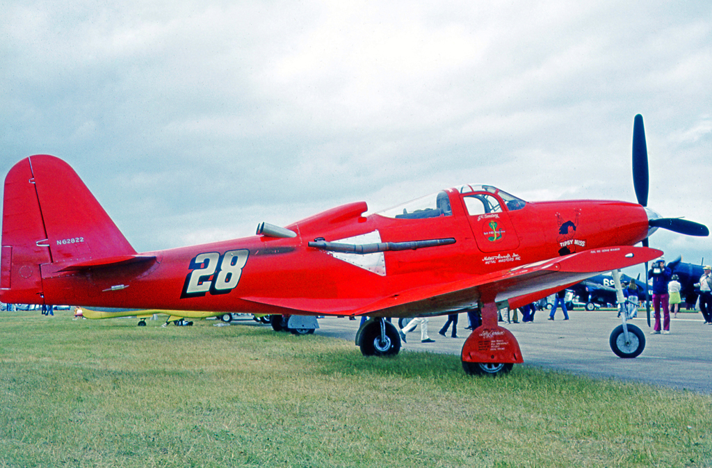 Bell RP-63C Kingcobra N62822 Racer No. 28 at Oshkosh Wisconsin in 1974